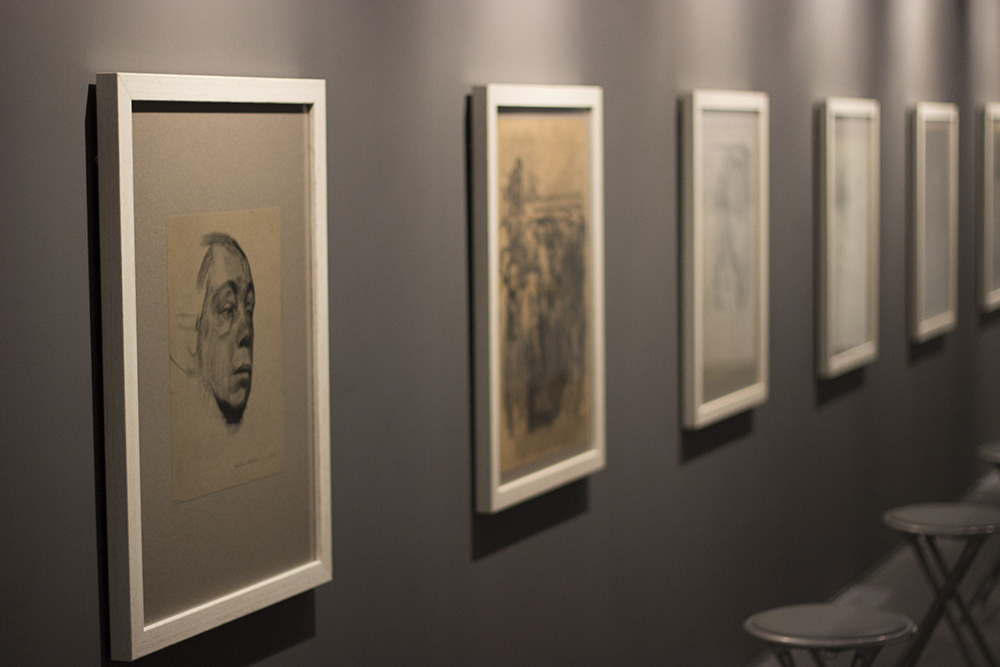 Kathe Kollwitz temporary exhibition in the Museum Jorge Rando